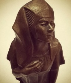 Meta Vaux Warrick Fuller, Ethiopia Awakening, bronze sculpture, 1914